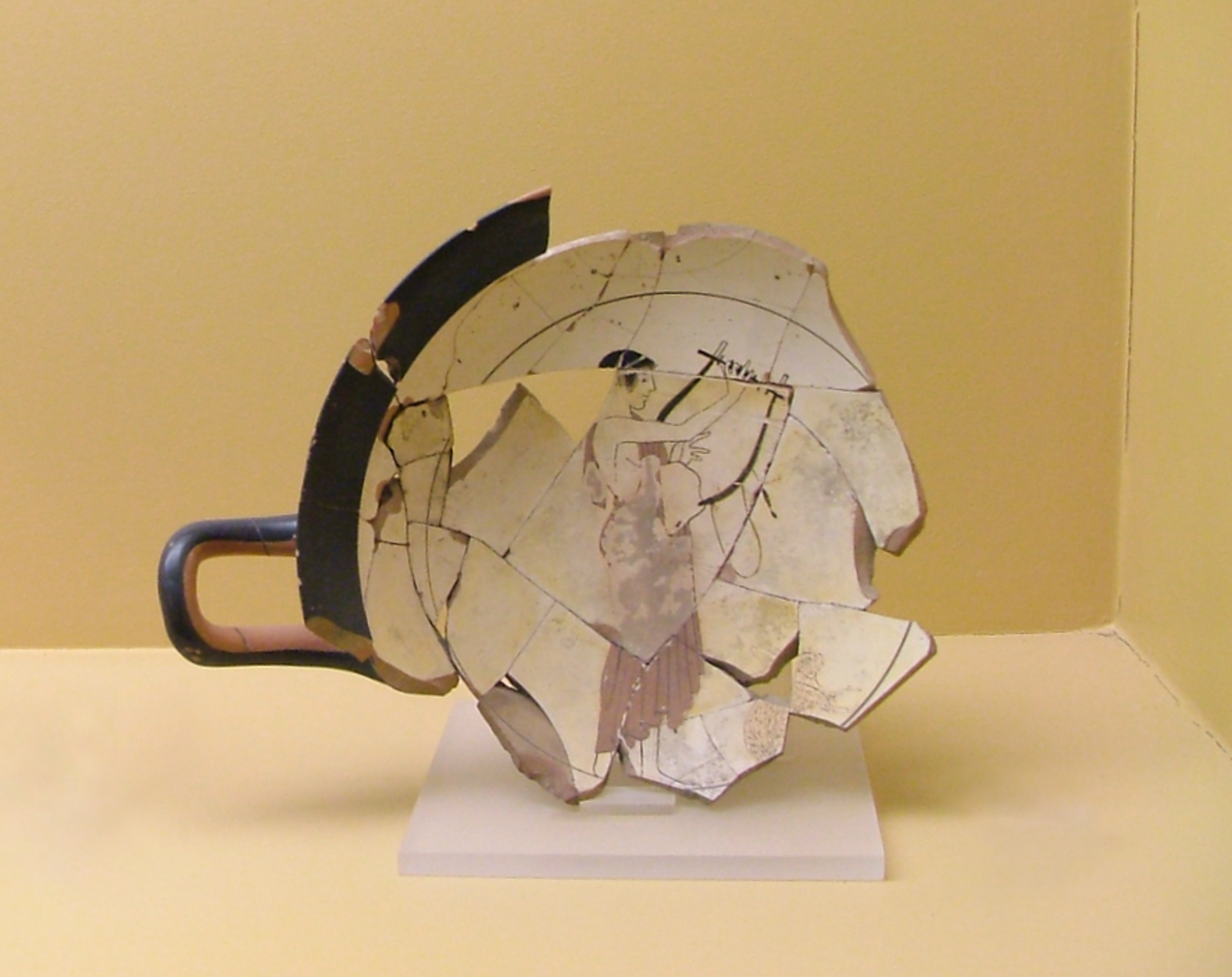 Fragmentary kylix with a youth tuning his lyre and a hare. Ca. 480 BC. Museum of the Ancient Agora in Athens.